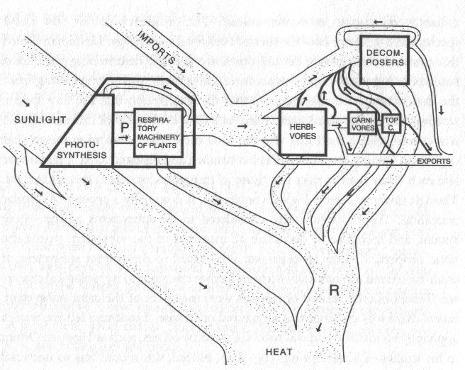 Model adapted from the Silver Springs model. (Source: Odum, H.T. (1971). Environment, Power, and Society. Wiley-Interscience New York, N.Y.) H are herbivores, C are carnivores, TC are top carnivores, and D are decomposers. Squares represent biotic pools and ovals are fluxes or energy or nutrients from the system.